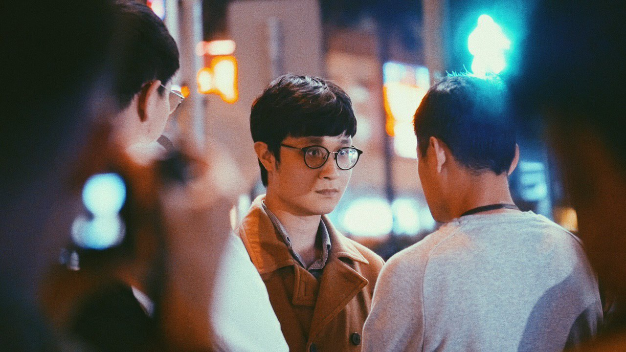 Ventus Lau was arrested after a demonstration in Wan Chai, Hong Kong on 19th January 2020.